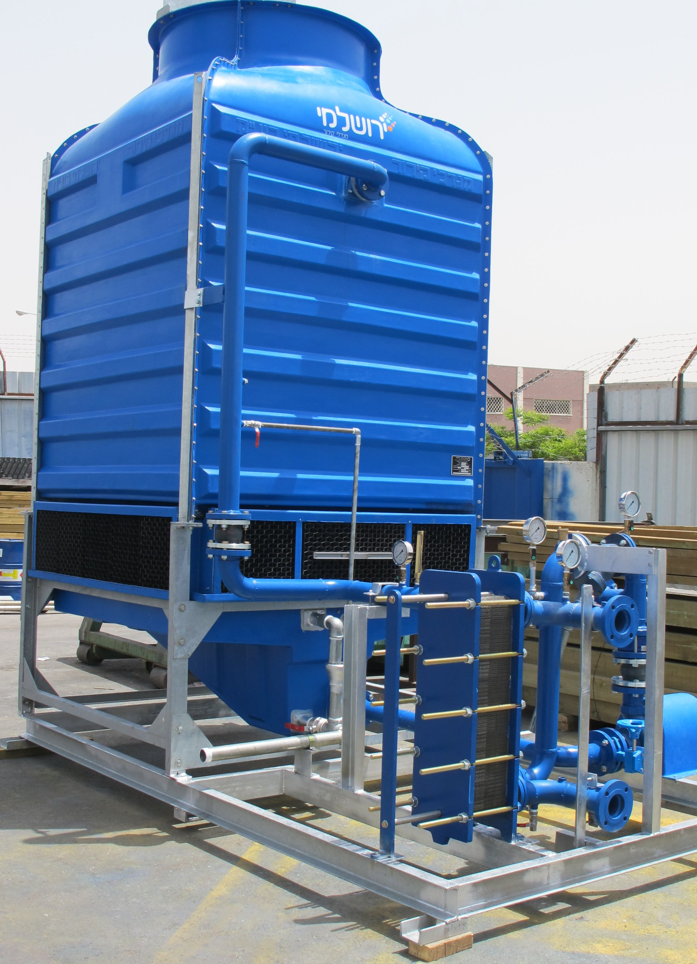 YWCT Package type cooling tower